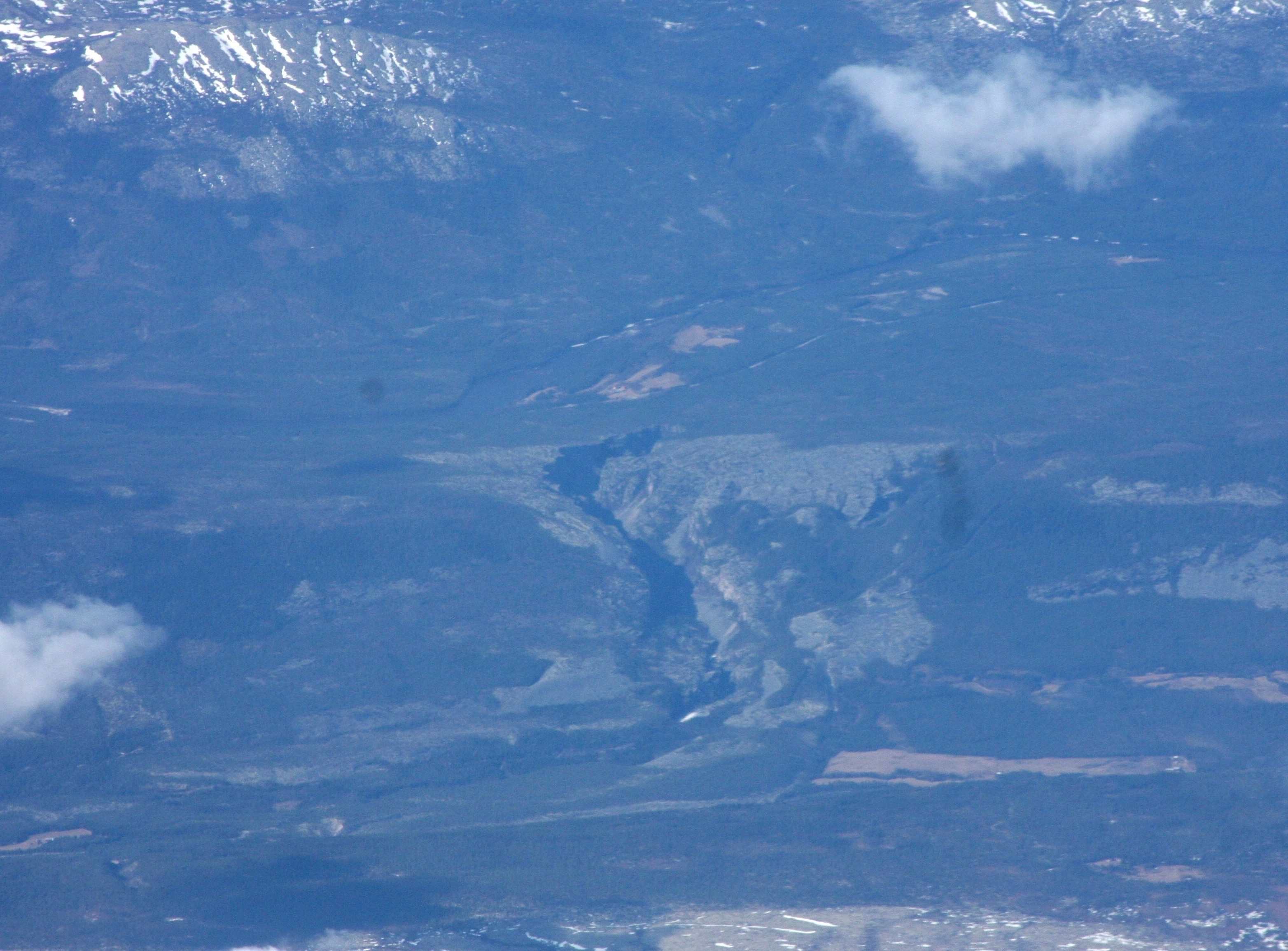 Jutulhogget, a canyon in Norway (Hedmark county), created by post-glacial melting water masses.